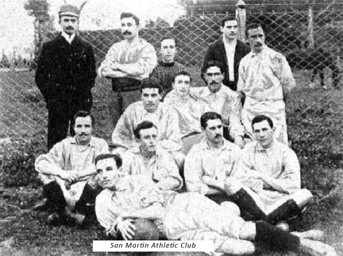 Team of San Martín A.C. (light blue shirts) that won the first edition Copa Bullrich after beating Estudiantes BA "B" 1-0. The match was played at Belgrano A.C.